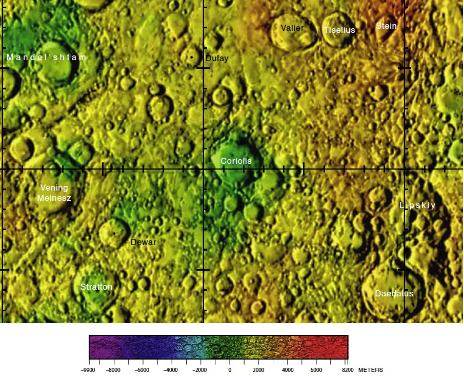 Part of the USGS far side lunar chart